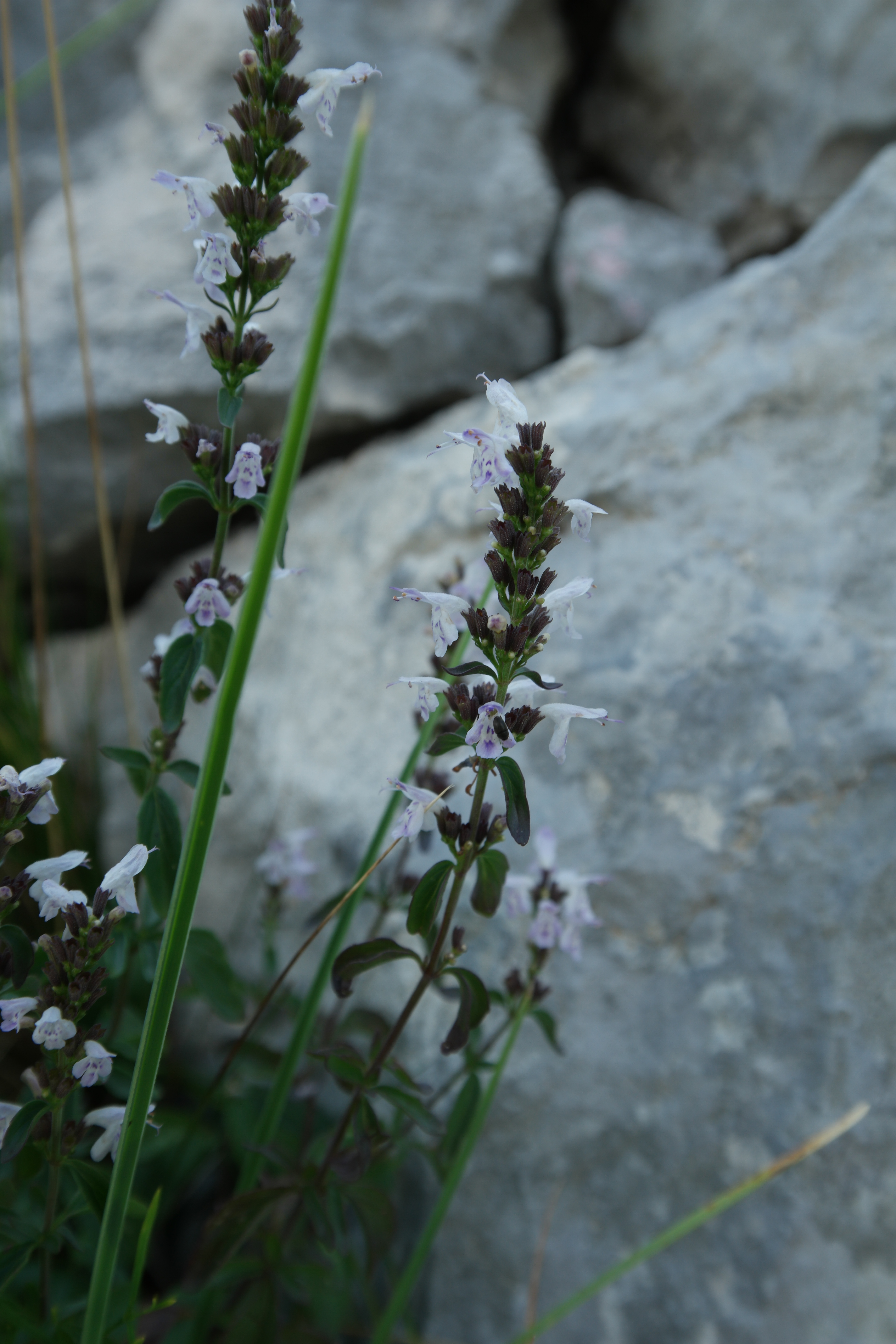 Micromeria thymifolia is a very aromatic plant distibuted in the Dinaric alps and an isolated Population in Hungary (Bükk, Bélkó, Tarkö)